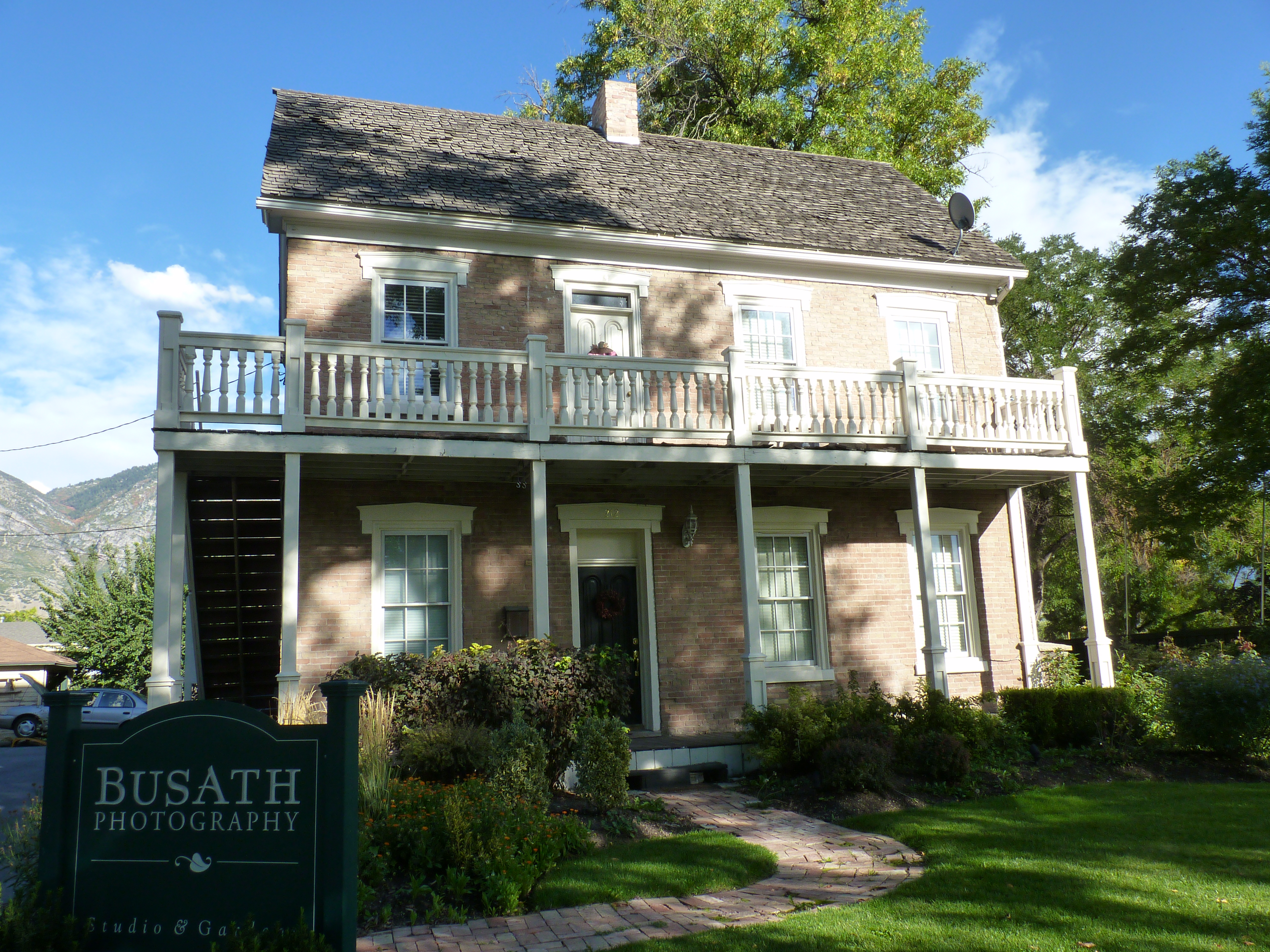 The William D. Roberts House is located in Provo, Utah and is listed on both the NRHP and the Provo City Historic Landmarks Registry.